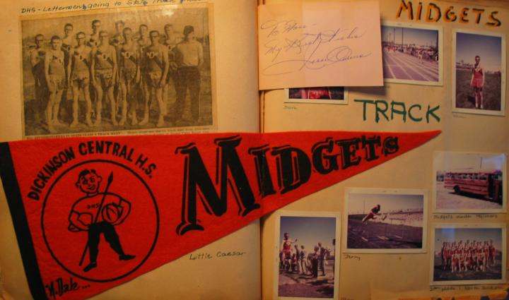 Dickinson High School, ND. - Midgets mascot "Little Caesar" 2004 Hans Andersen Photo from an old scrap-book from 1964 containing memories of the Midgets - here the track team. An autograph from the famous athlete Jesse Owens, who visited in 1964 is also present.